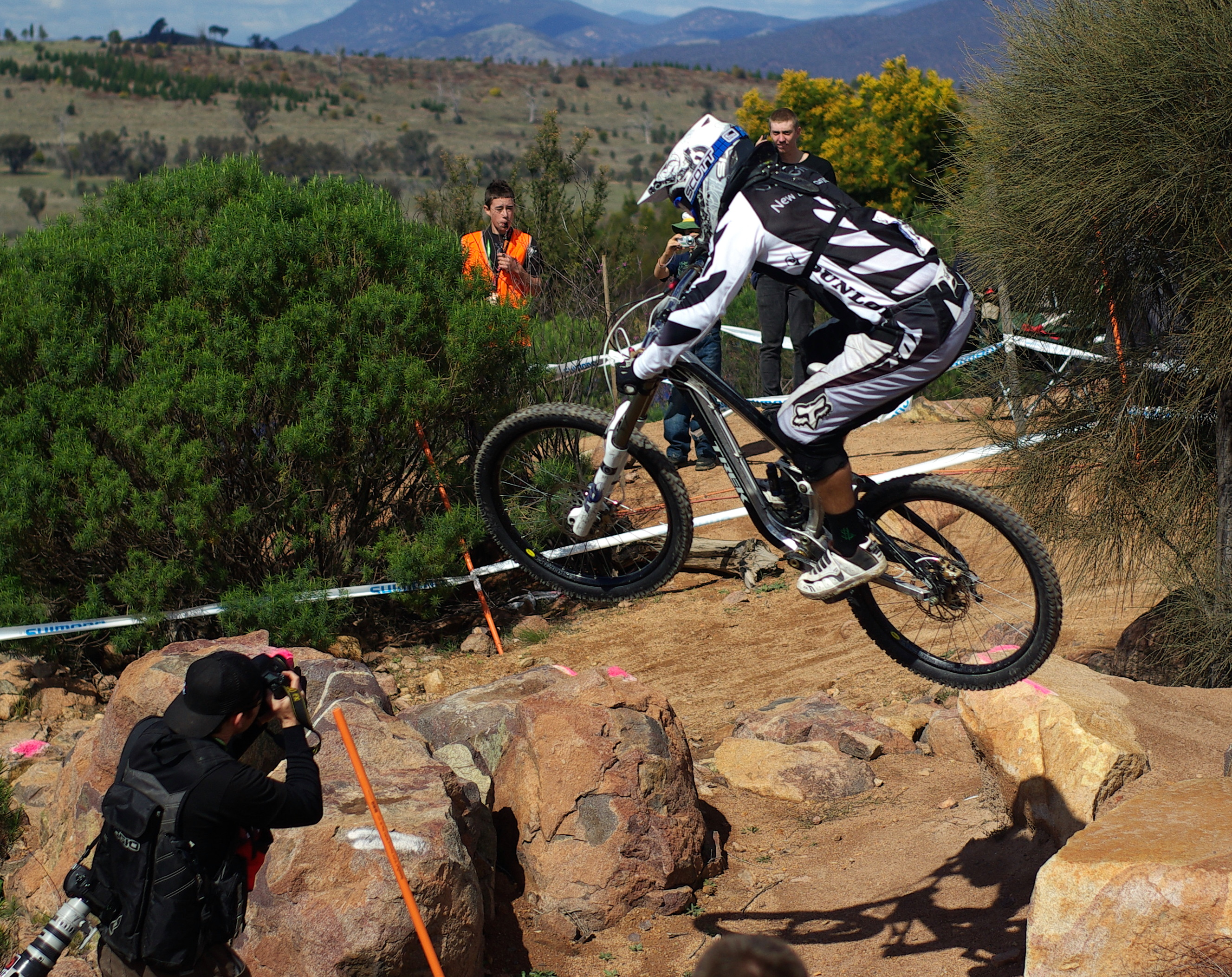 Cross-country mountain biking: Competitors in downhill events at the 2009 UCI Mountain Bike and Trials World Championships held at Mount Stromlo, near Canberra, Australia.